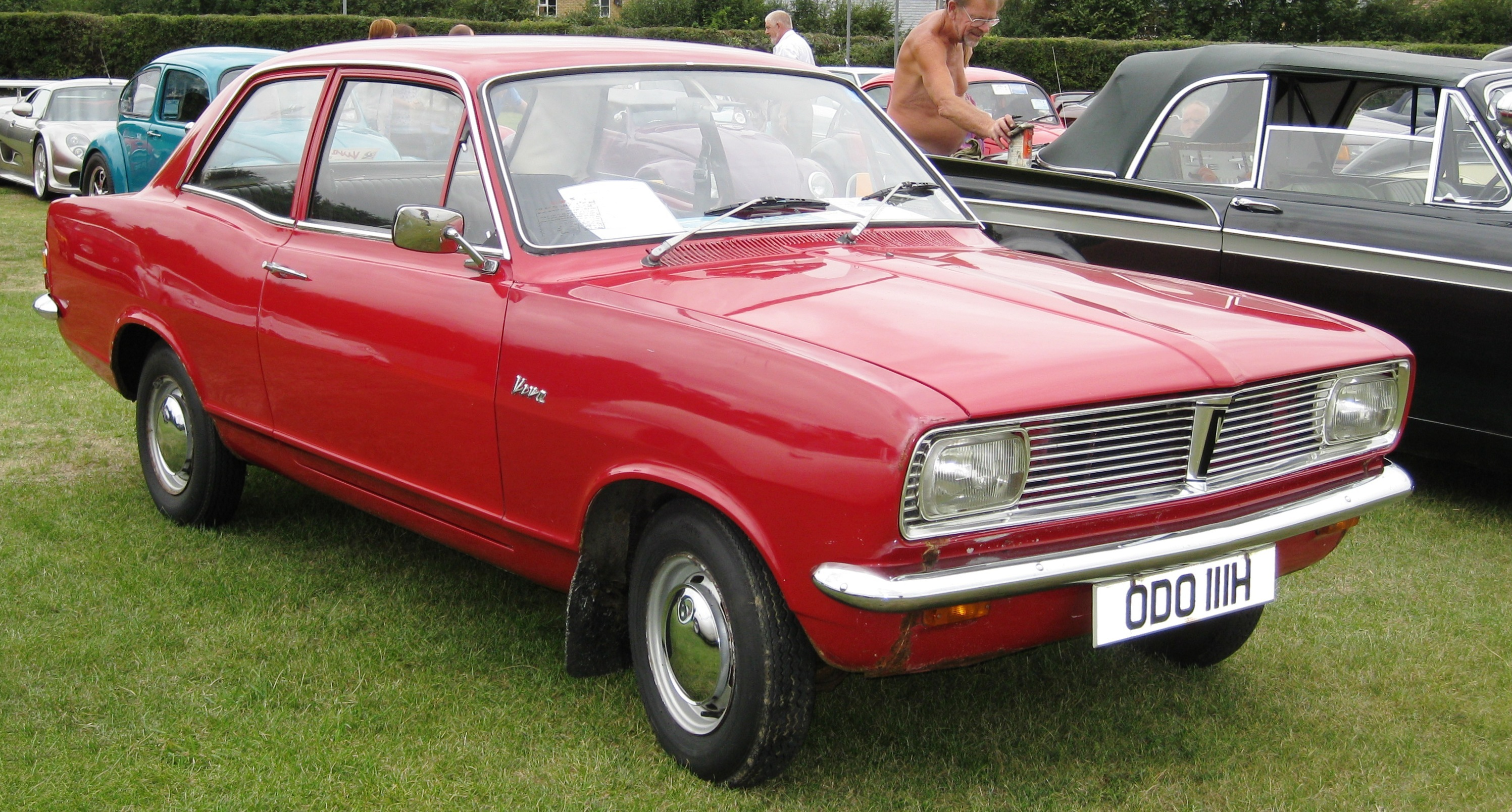 Vauxhall Viva HB de Luxe at Duxford Classic car Show